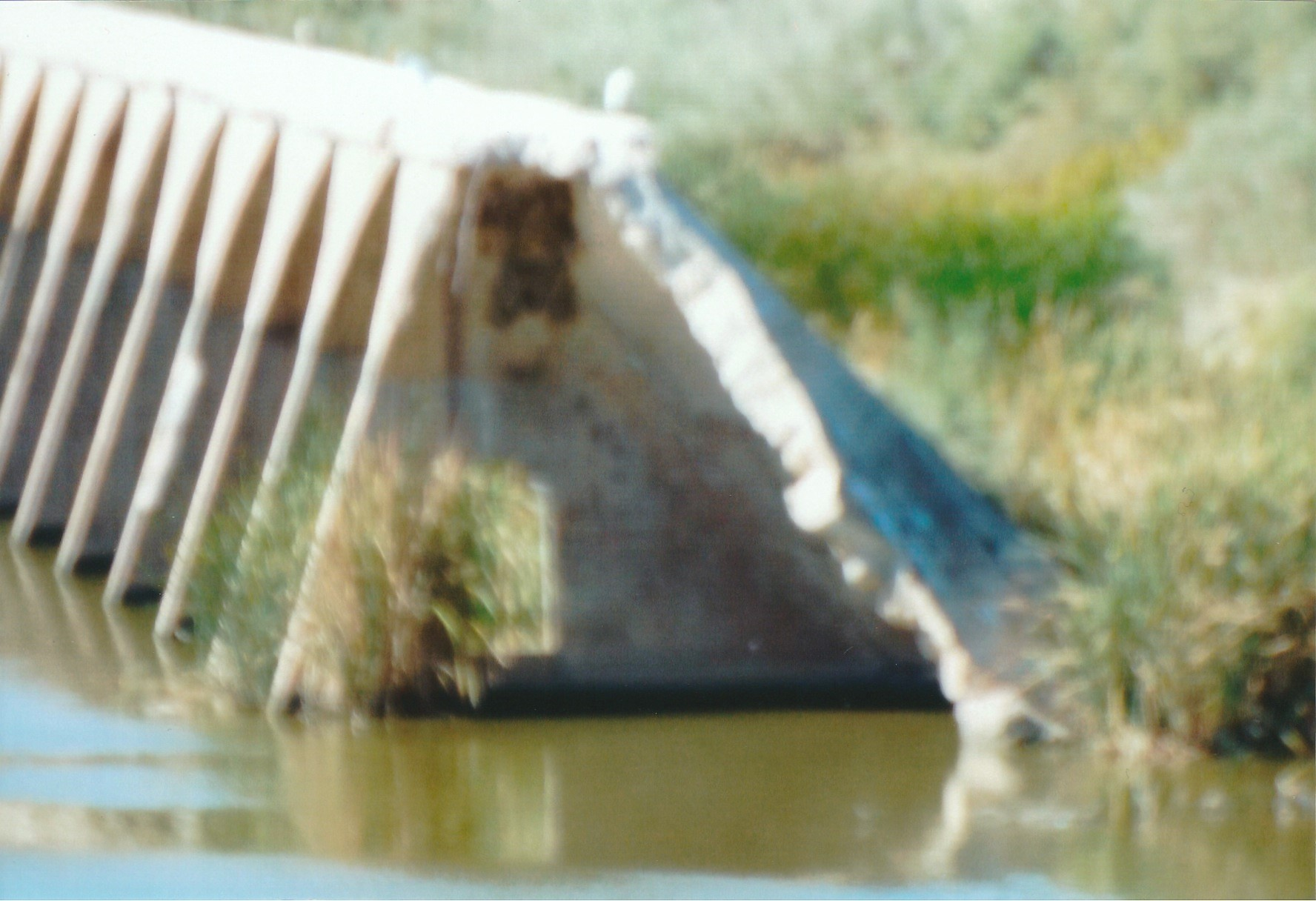 Ruins of the Gillespie Dam in Maricopa County, Arizona which was built in 1920. The dam was destroyed in 1993..